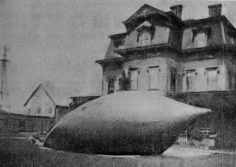 Inflating an airship spindle at Myers Frankfort "balloon farm."